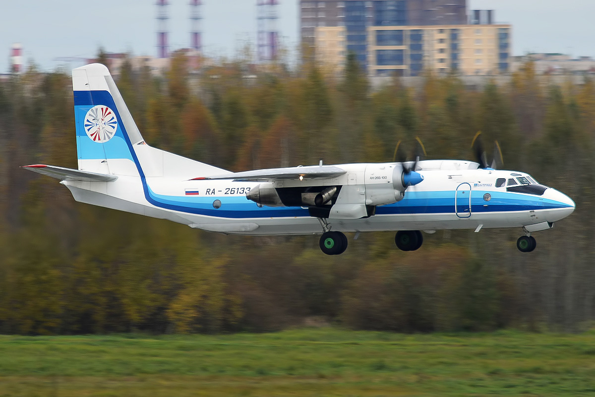 Kostroma Air Enterprise, RA-26133, Antonov An-26B-100